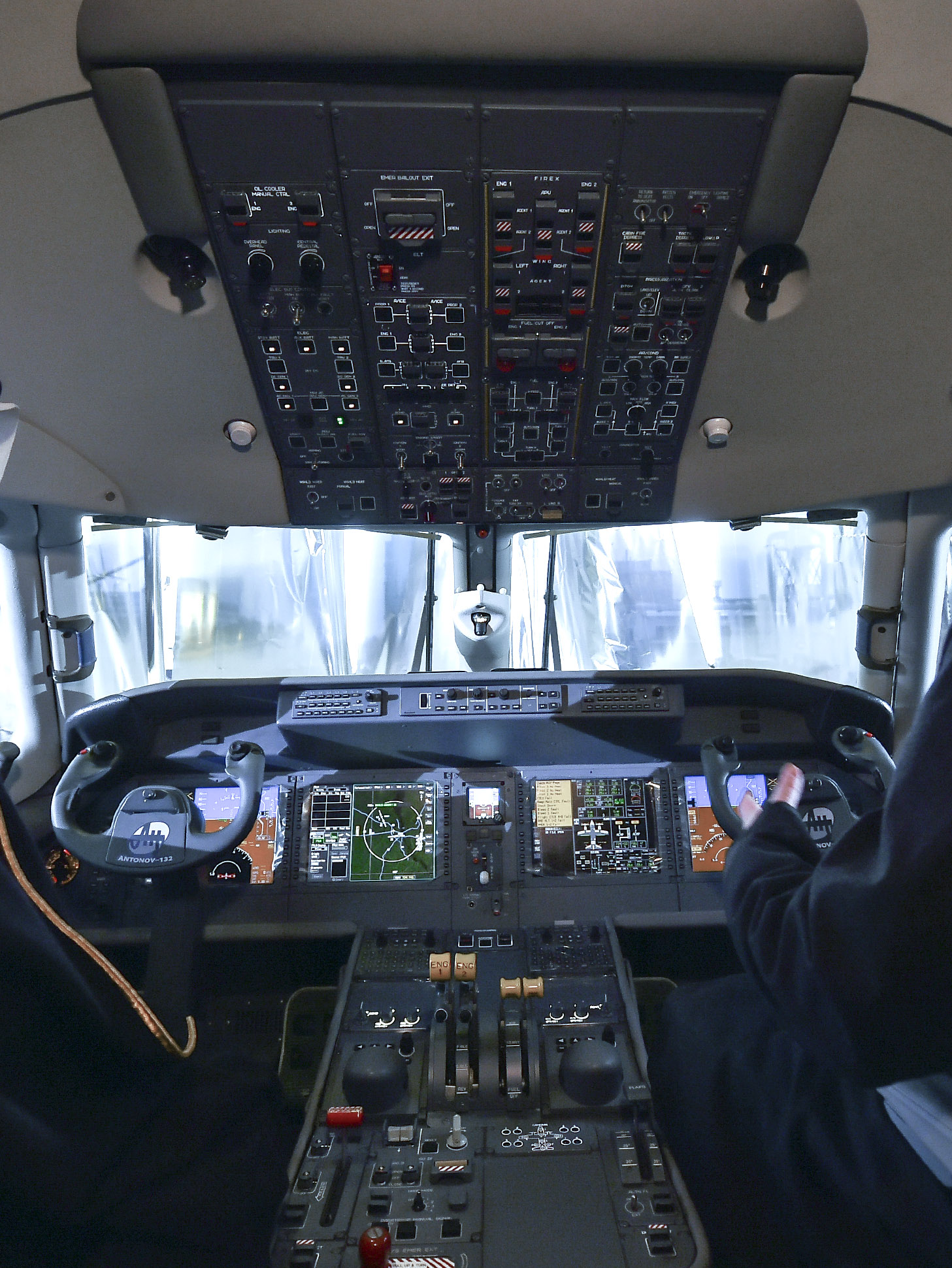 Antonov An-132D glass cockpit